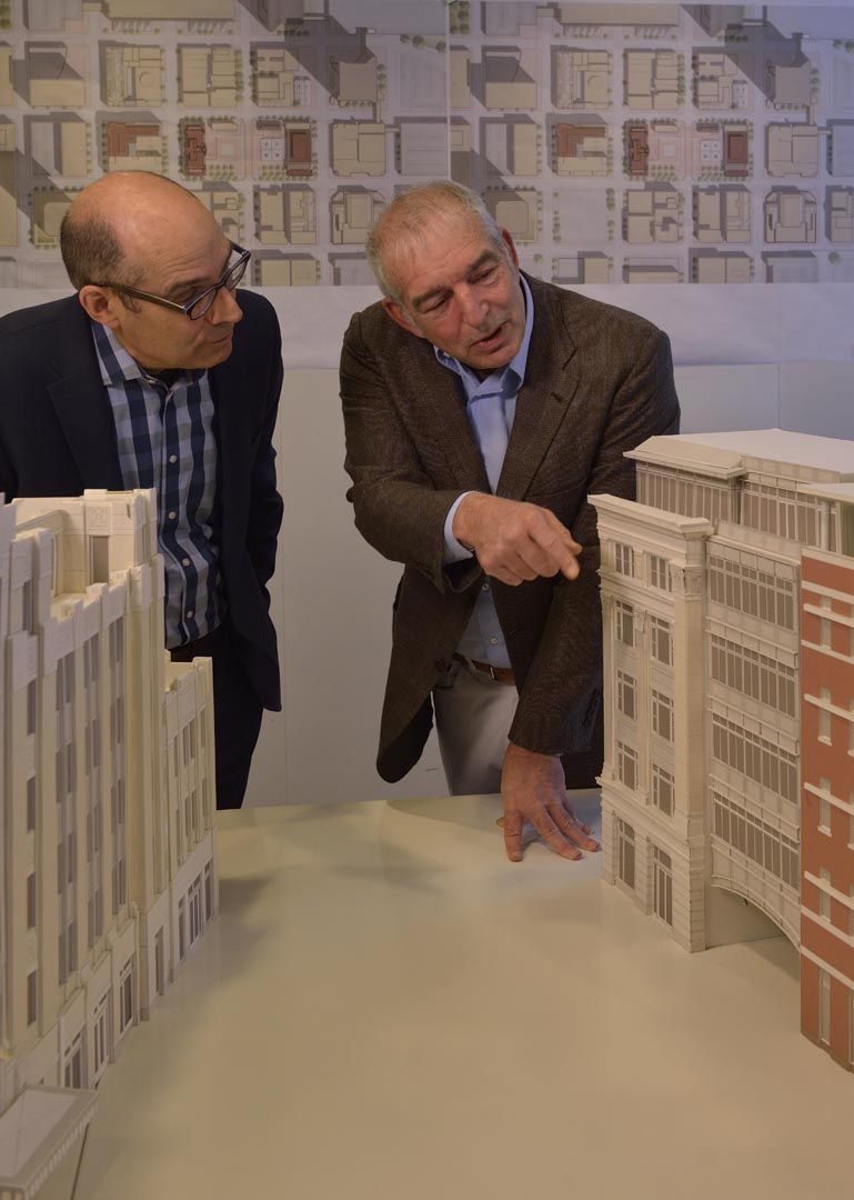 Taken during filming for WTTW Special, "Street Smarts", February 5, 2015 in David M. Schwarz Architects, Inc. office in Washington, D.C. Geoffrey Baer on the left, David M. Schwarz on the right.